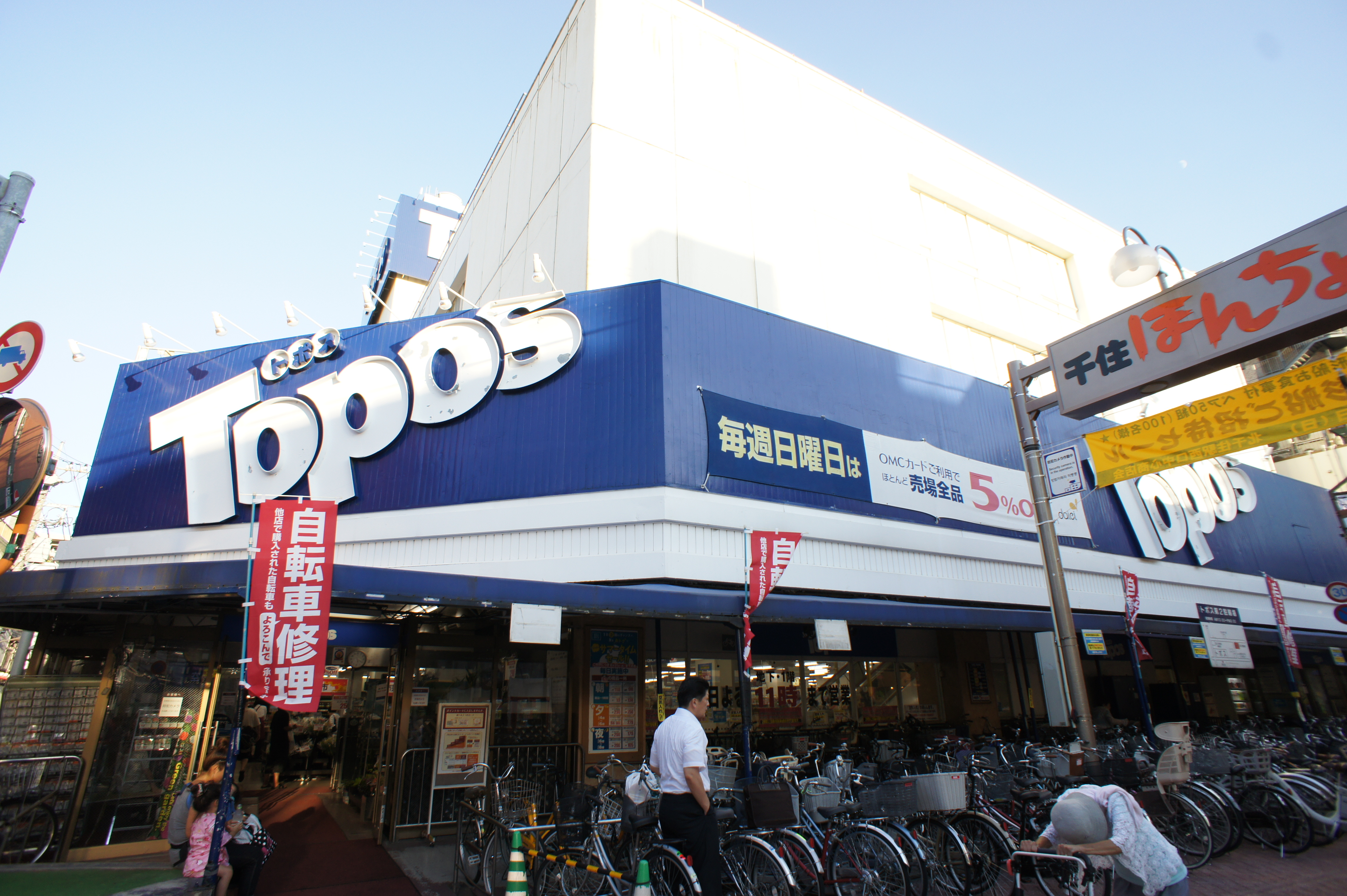 Topos Kita-Senju, 1-30-3 Senju Adachi-ku Tokyo Japan.